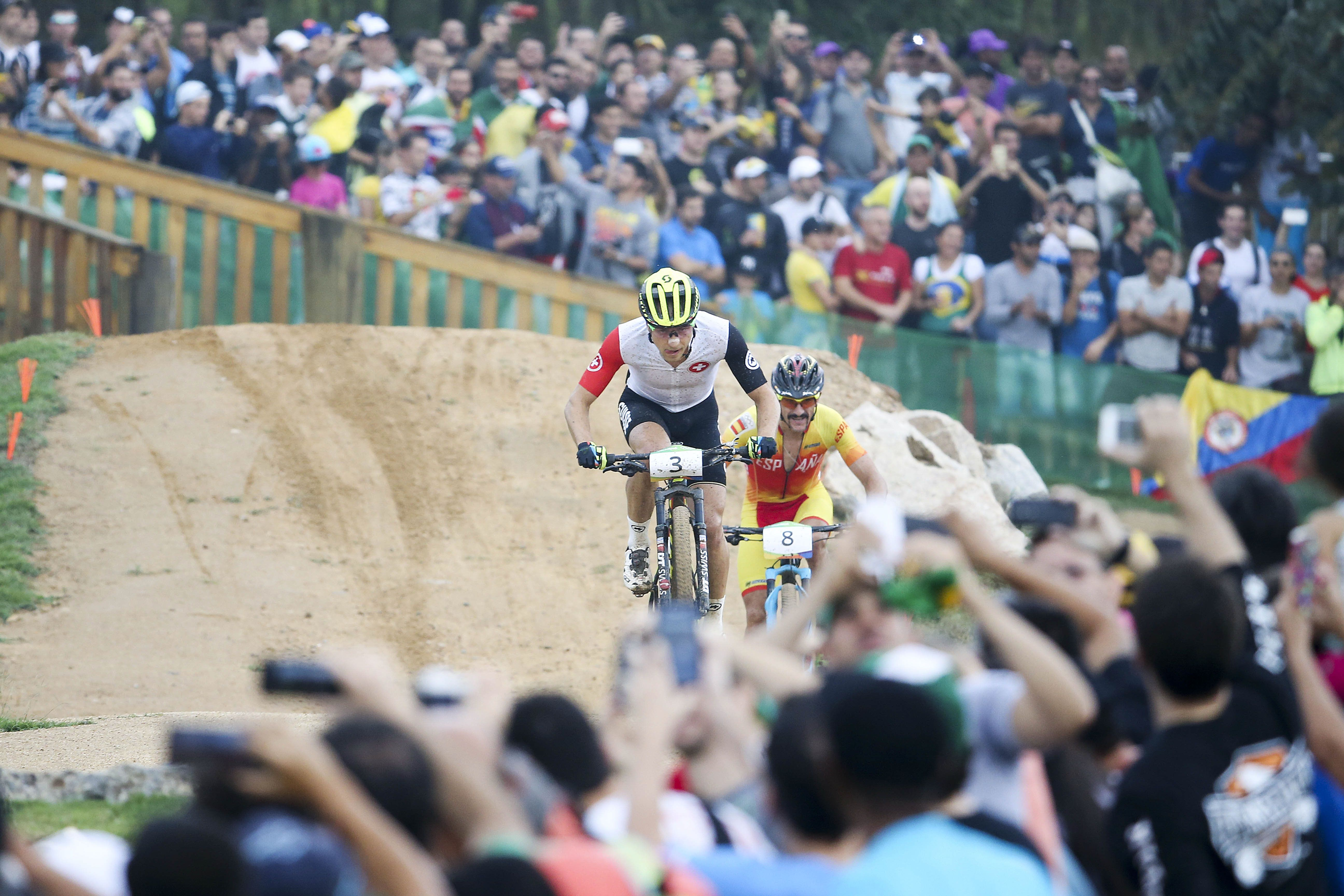 Cycling at the 2016 Summer Olympics – Men's cross-country